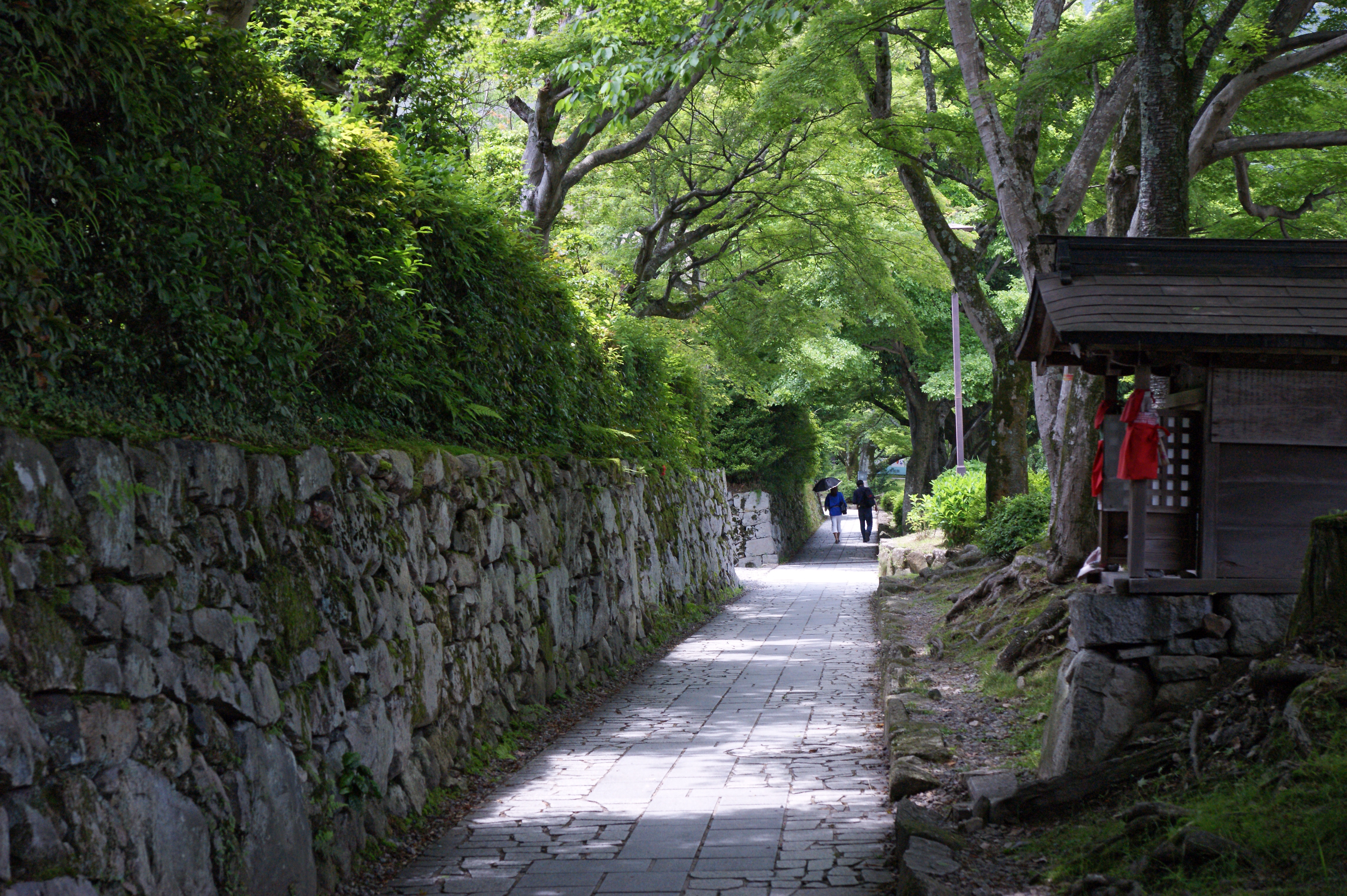 Sakamoto in Otsu, Shiga prefecture, Japan